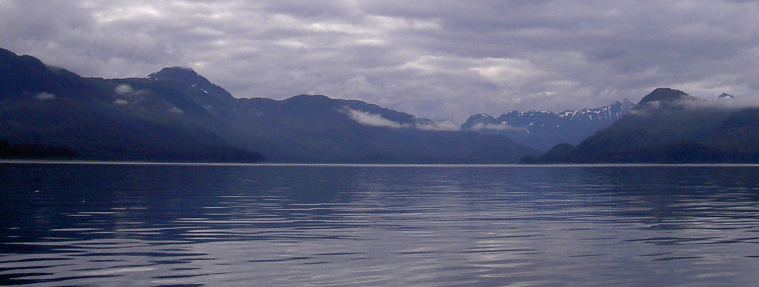 looking south into Idaho Inlet of Chichagof Island, southeastern Alaska, United States from the vicinity of Shaw Island